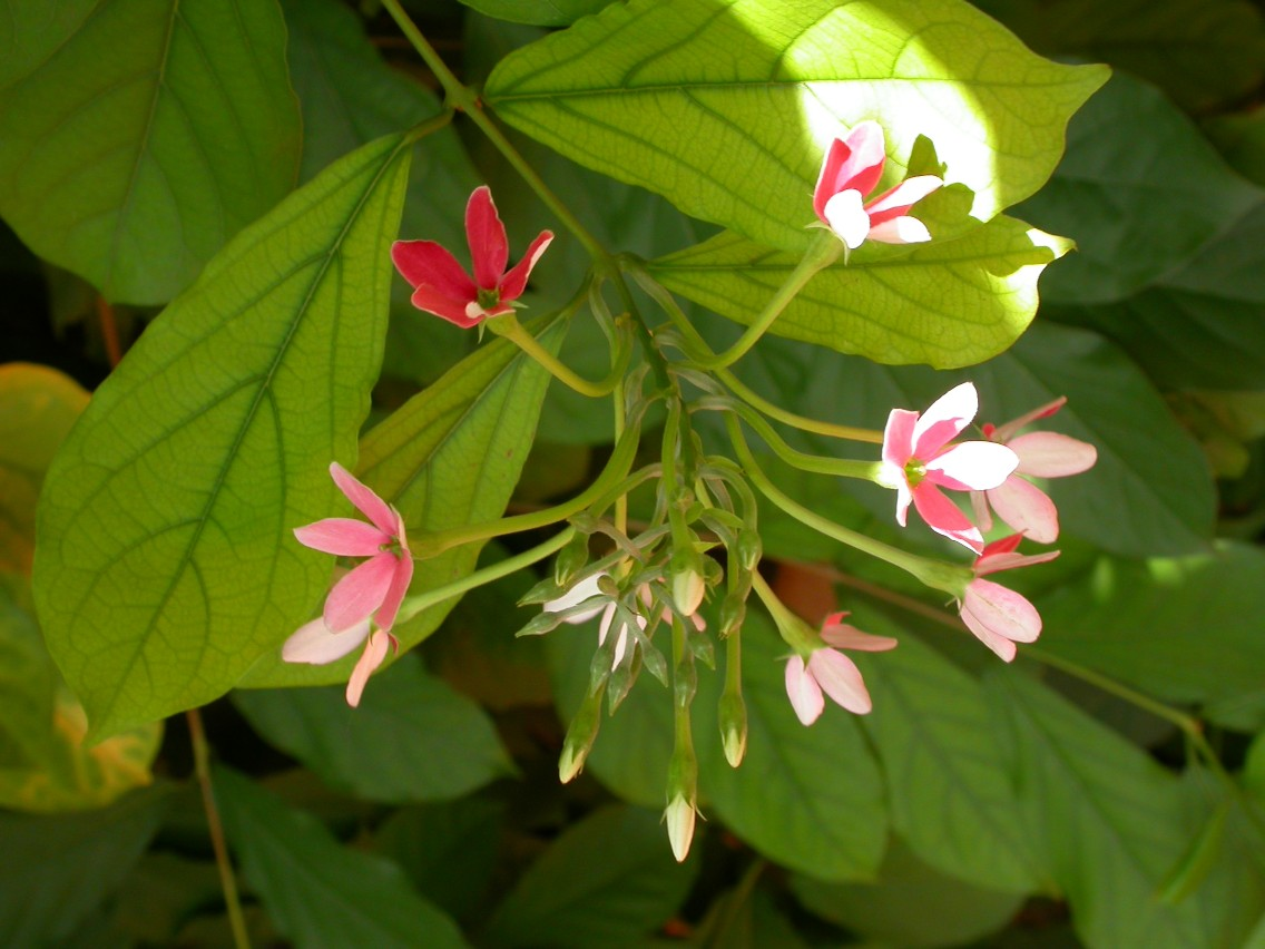 Quisqualis indica, ornamental plant from a garden in Bobo-Dioulasso, Burkina Faso.